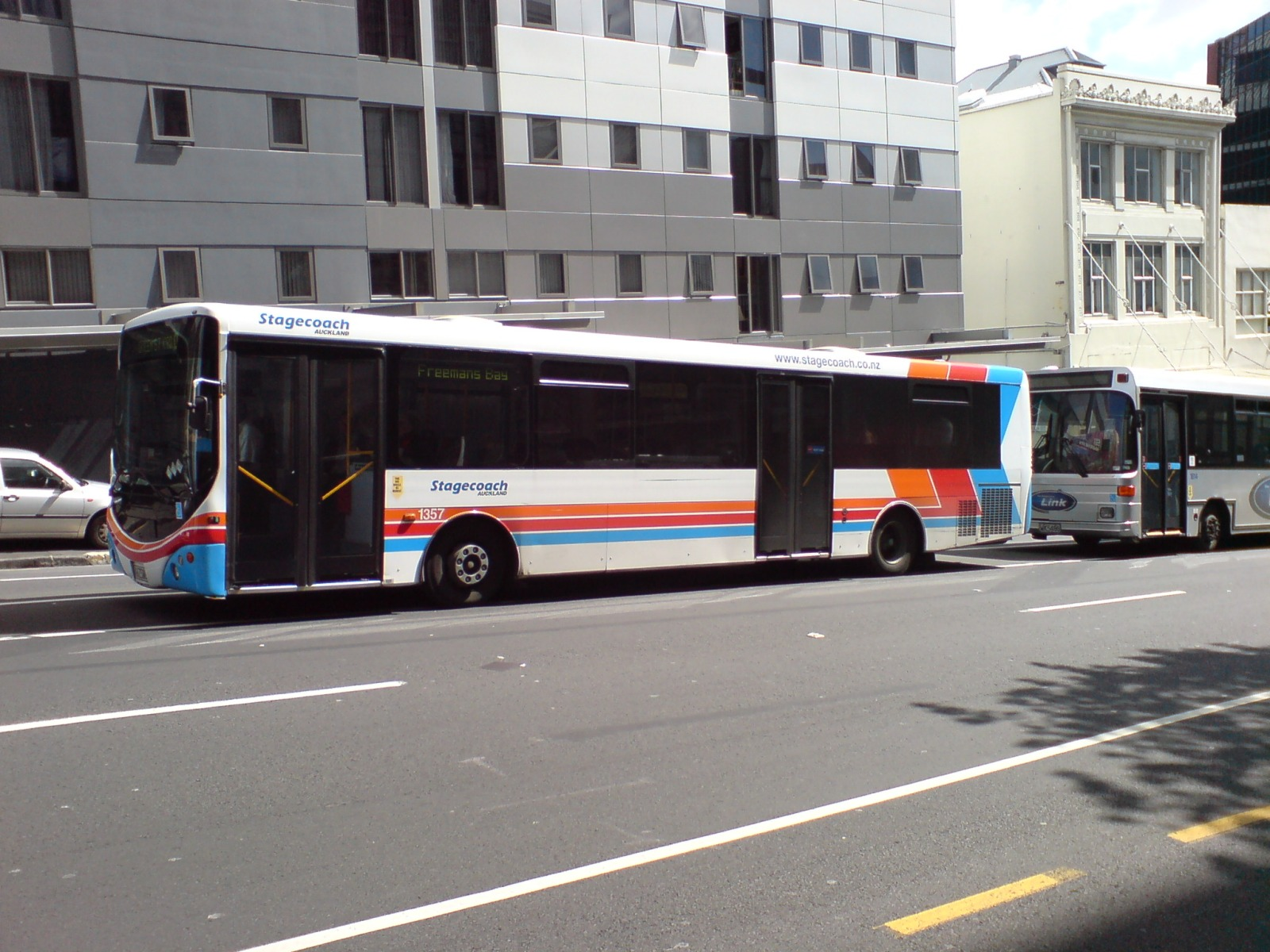 A Stagecoach livery bus on Queen Street, Auckland City, New Zealand followed by the 'Link Bus'. As of 2010, both livery schemes have been replaced.